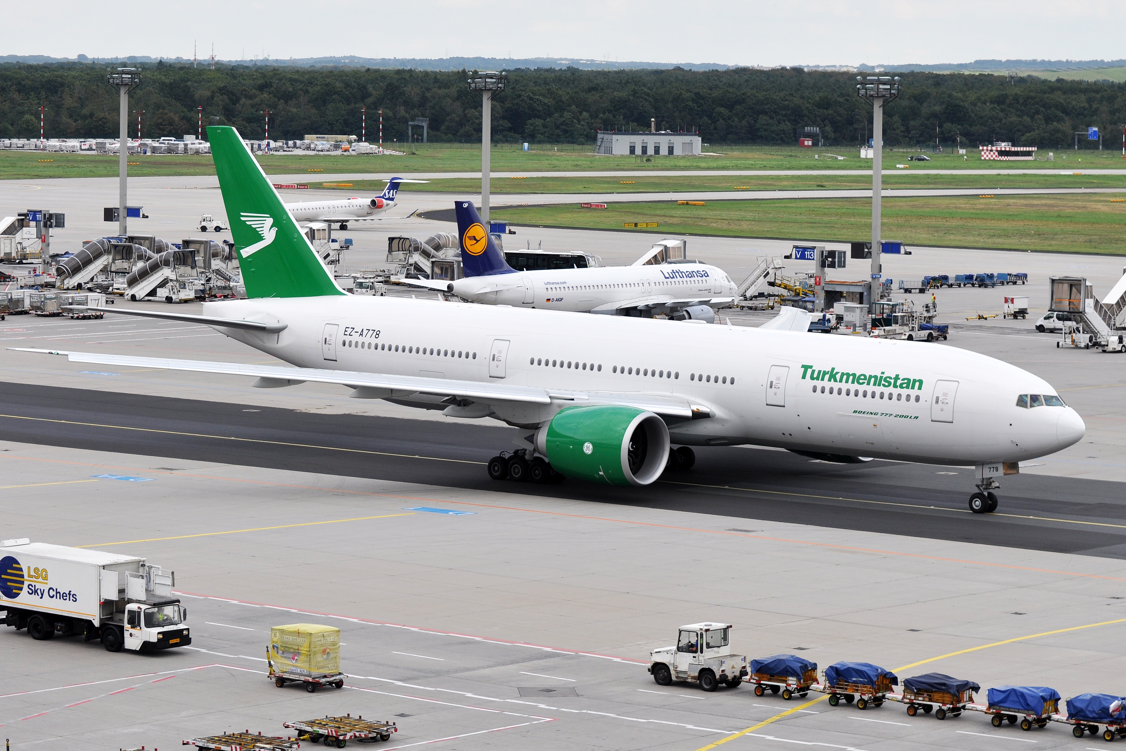 MSN 42296 LN 1181 B777-22KLR TURKMENISTAN AIRLINES FRA AIRPORT